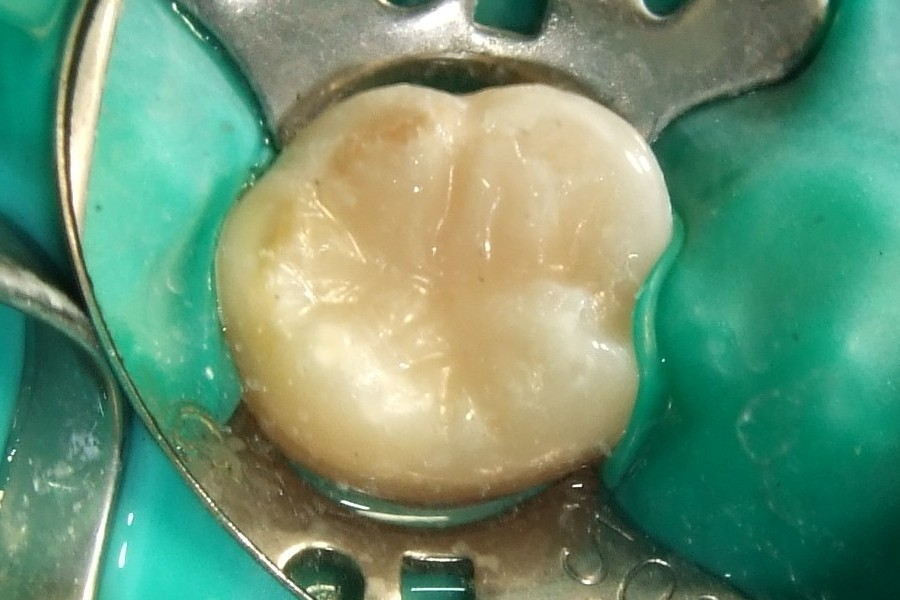 Composite resin fillng was finished